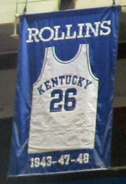 A jersey honoring Ken Rollins hanging in Rupp Arena in Lexington, Kentucky